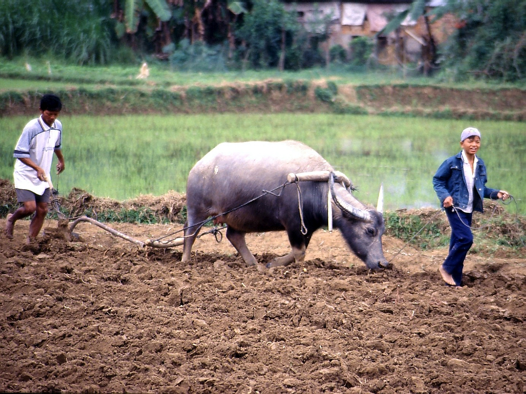 Paddy farmers, Rice Cultivation in Vietnam